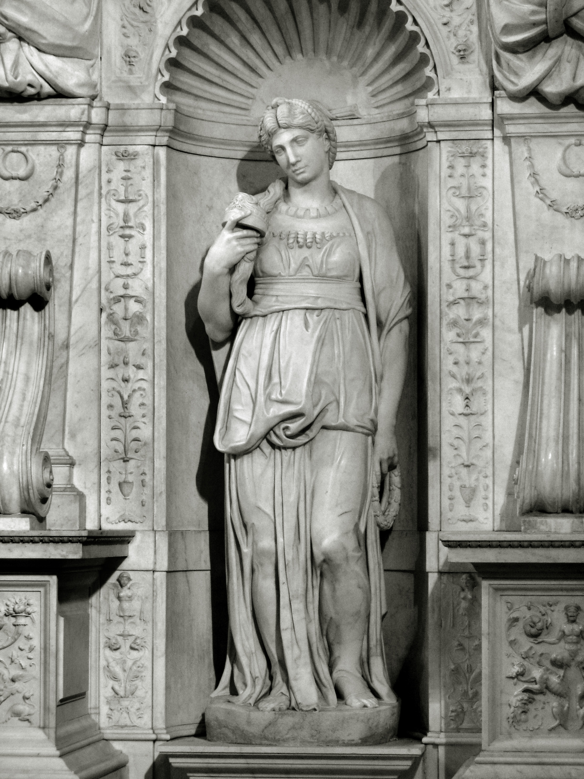 Michelangelo's Leah at Michelangelo's grave for Julius II at San Pietro in Vincoli.